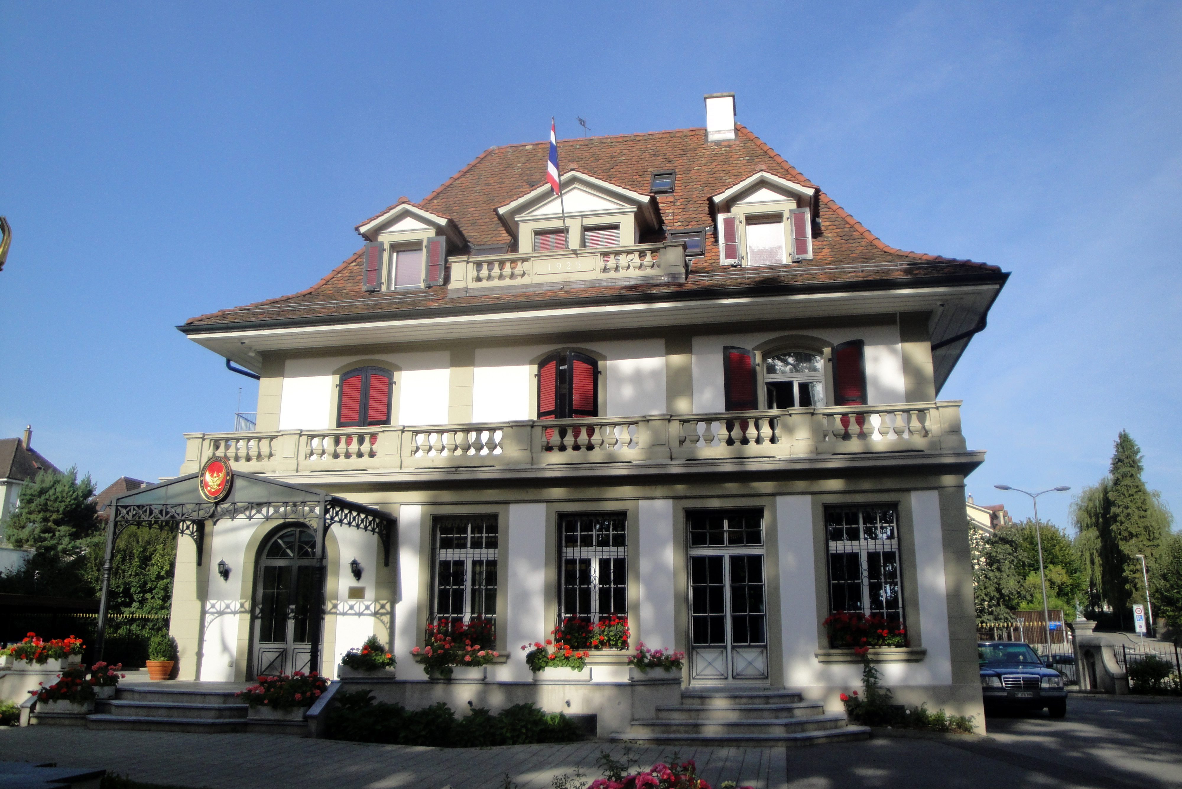 Bern, Embassy of Thailand